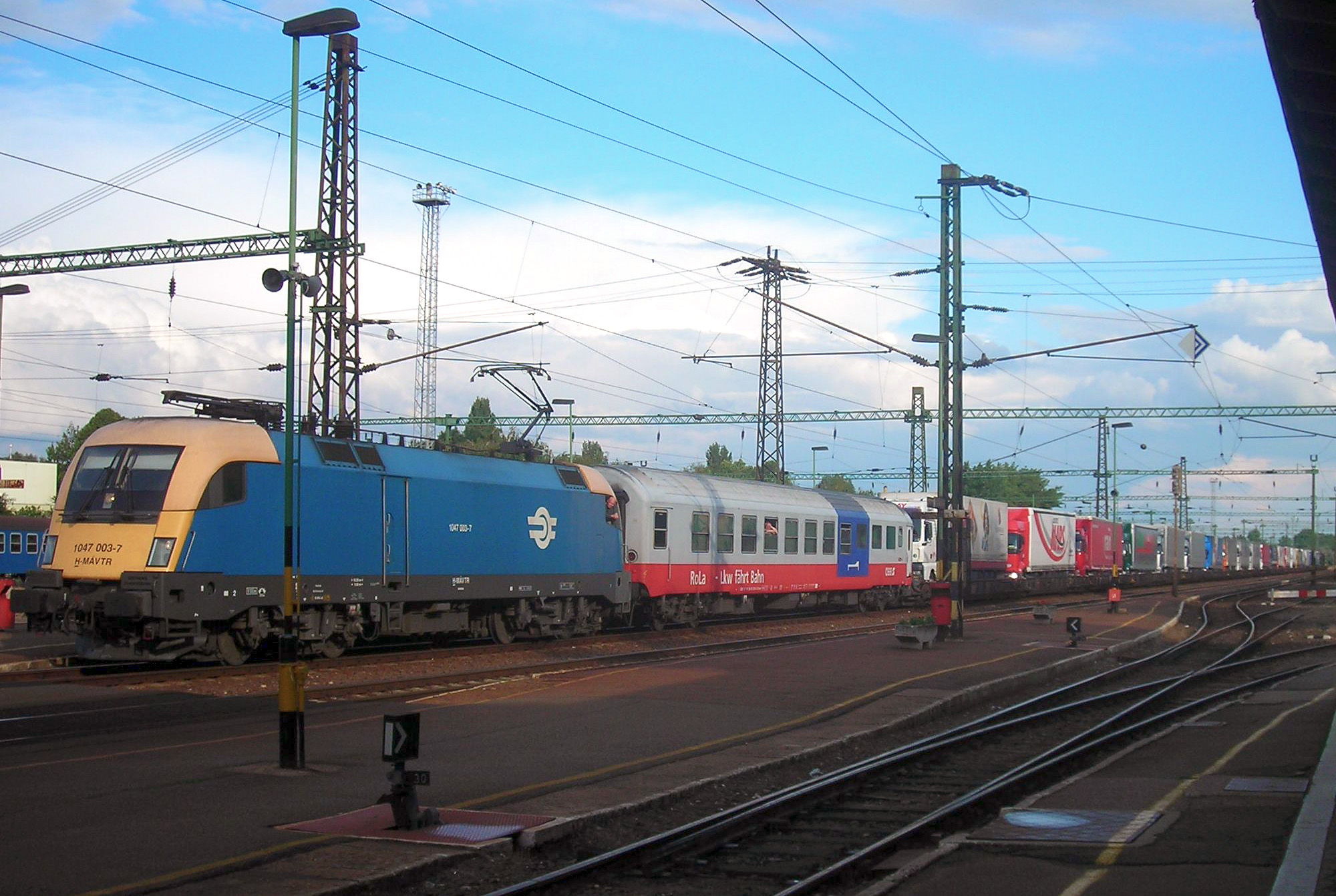 MÁV 1047 in Kecskemét station with RoLa train